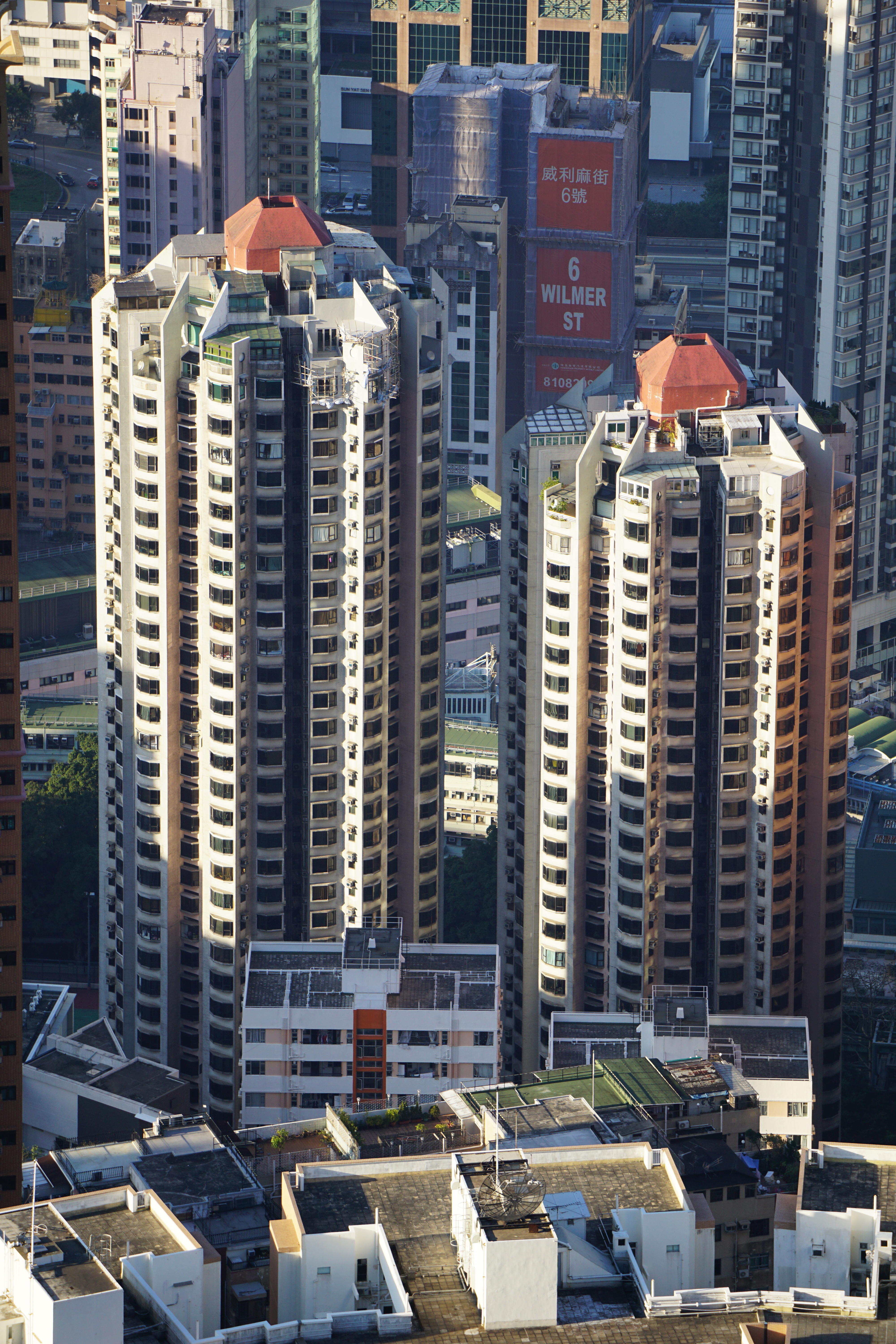 Euston Court in Sai Ying Pun, Hong Kong.